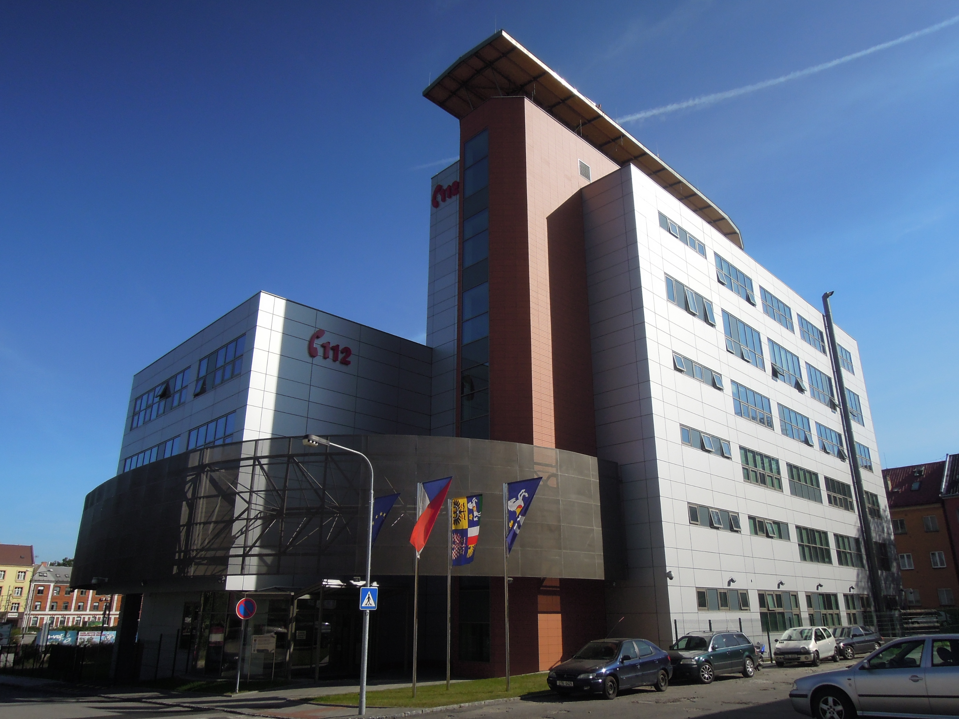 Integrované bezpečnostní centrum in Ostrava, Moravian-Silesian Region, Czech Republic